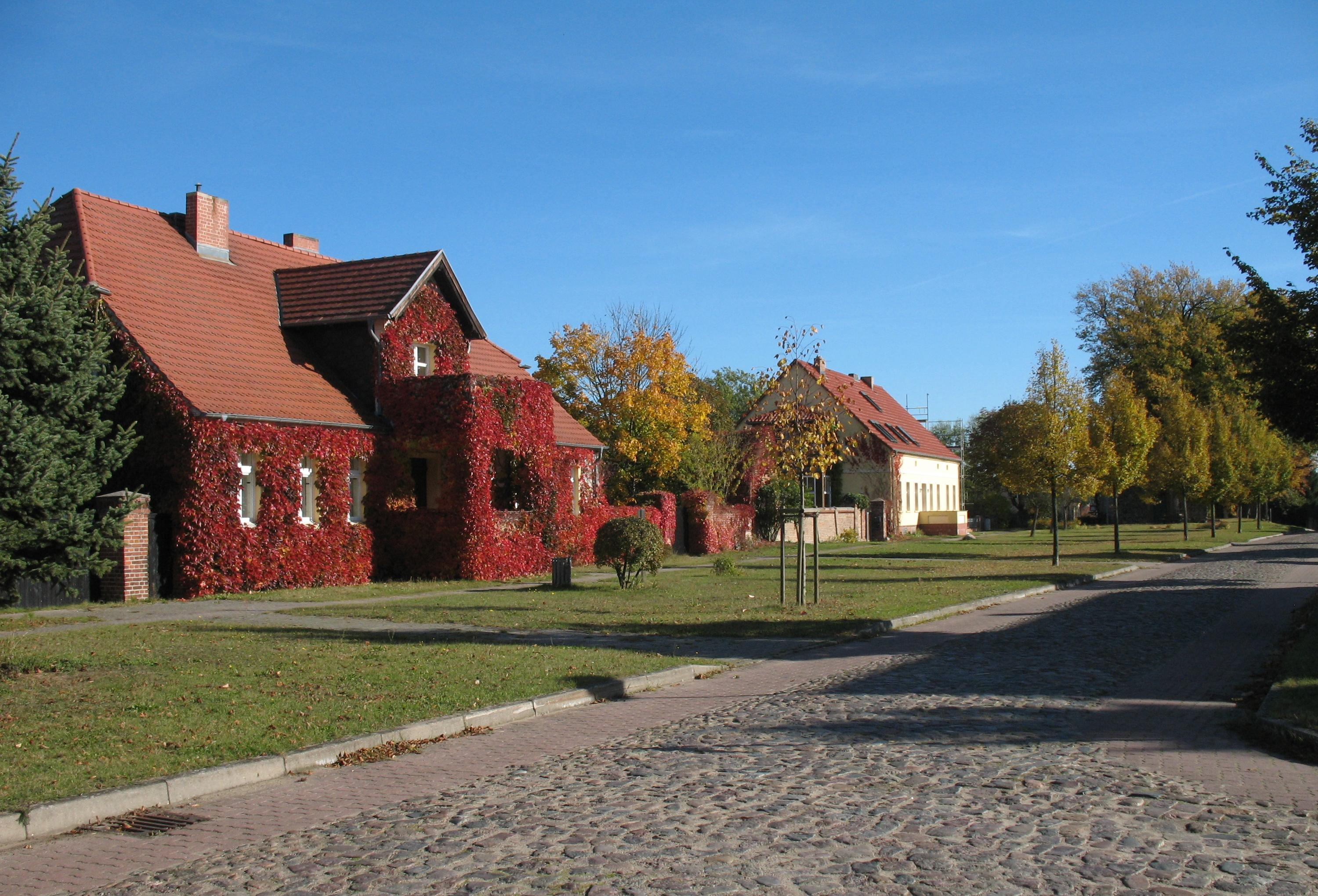 Church street in Vielitzsee-Vielitz in Brandenburg, Germany